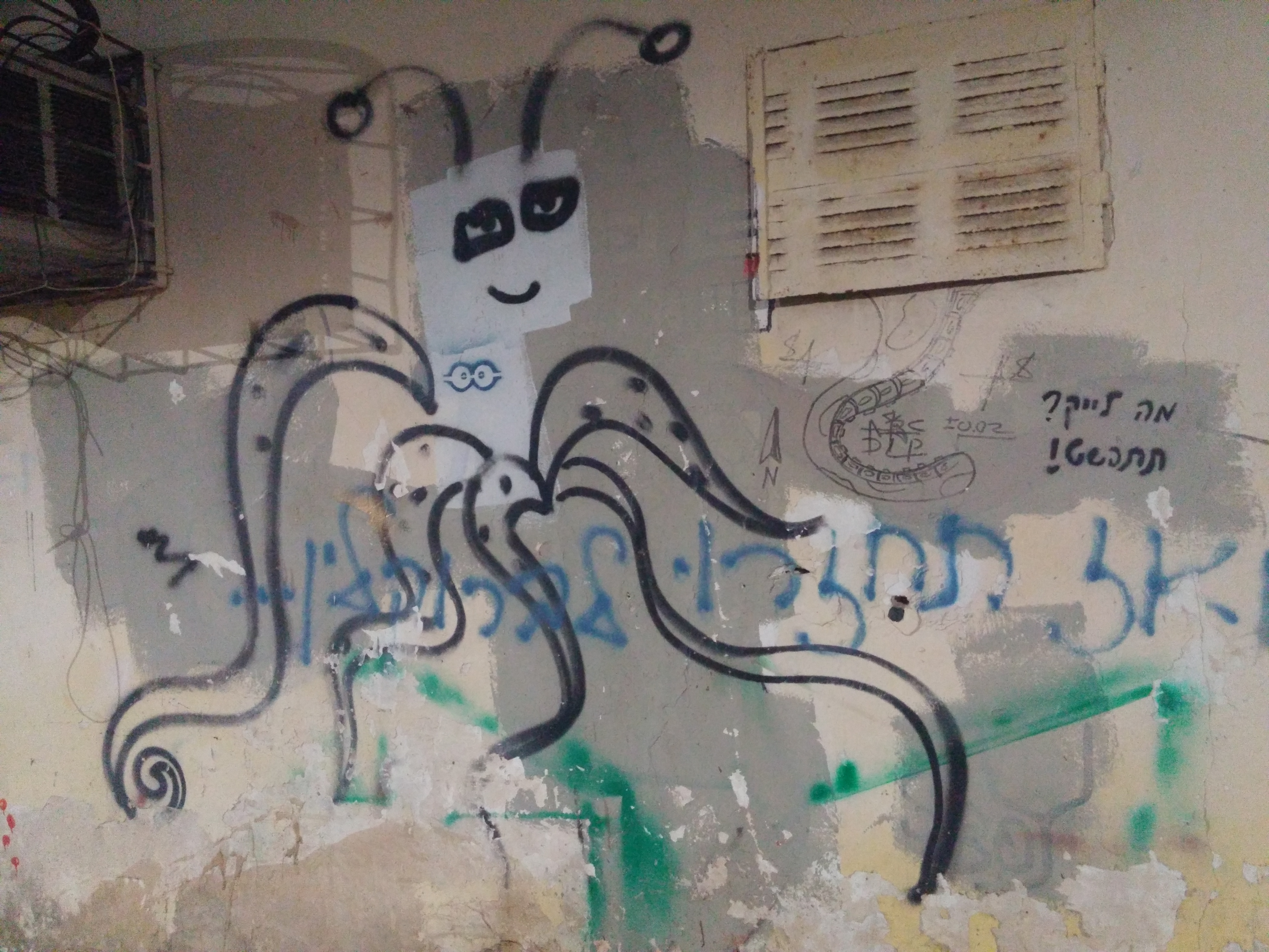 Graffiti in Tel Aviv an ant - octopus on a wall of an old building